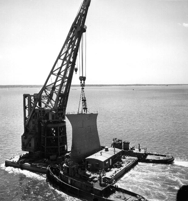 Photo #: 80-G-670850. The bow of the USS Kentucky (BB-66) being transported on a large crane barge from Newport News, Virginia, to the Norfolk Naval Shipyard, circa May-June 1956. It was used to repair USS Wisconsin (BB-64), which had been damaged in a collision on 6 May 1956. Tug closest to camera is Alamingo (YTB-227). Tug on other side of barge is Apohola (YTB-502).